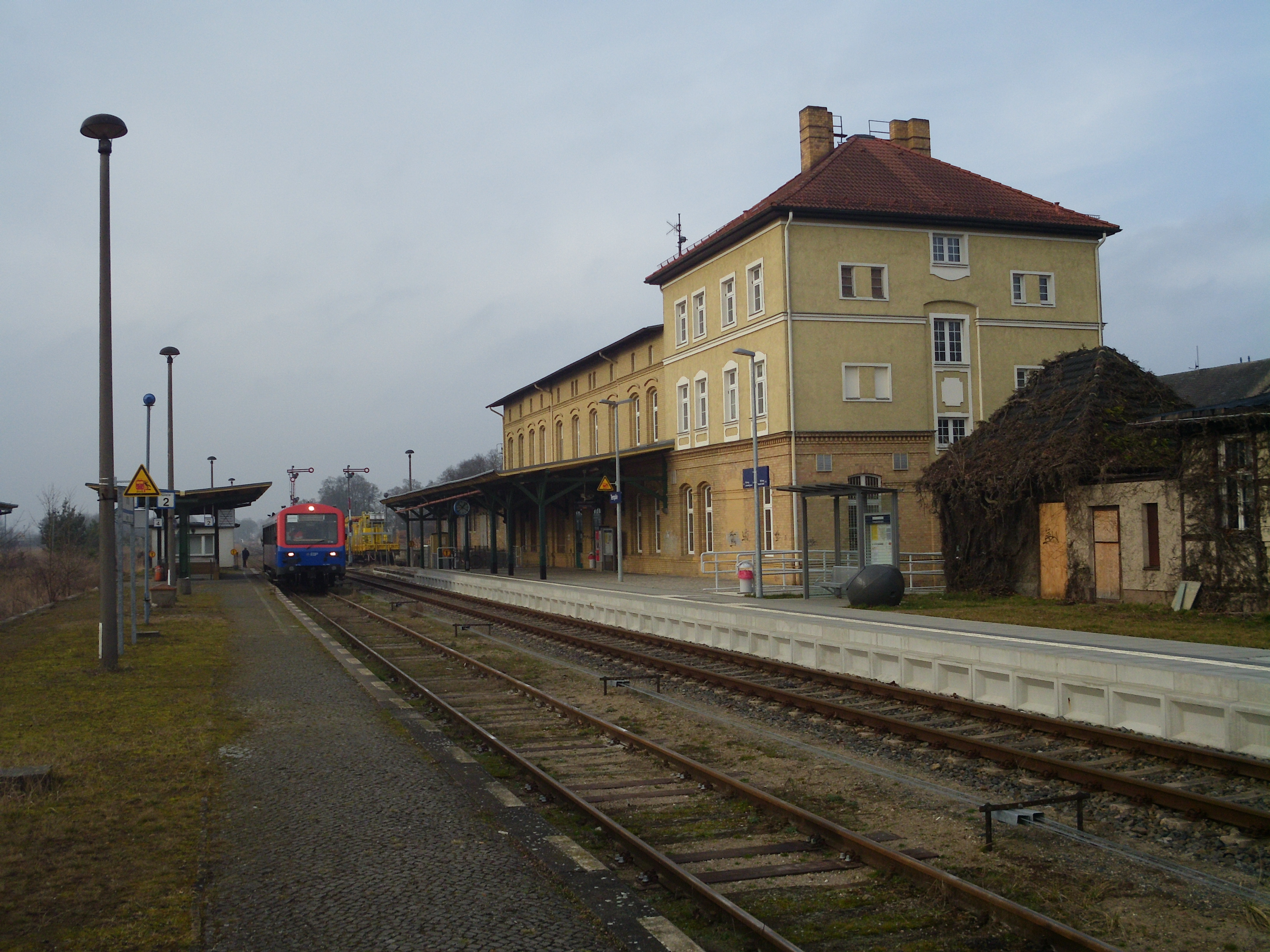 Train station in Templin, Germany. A tourist train (diesel railcar of EGP) stands on one of the tracks.